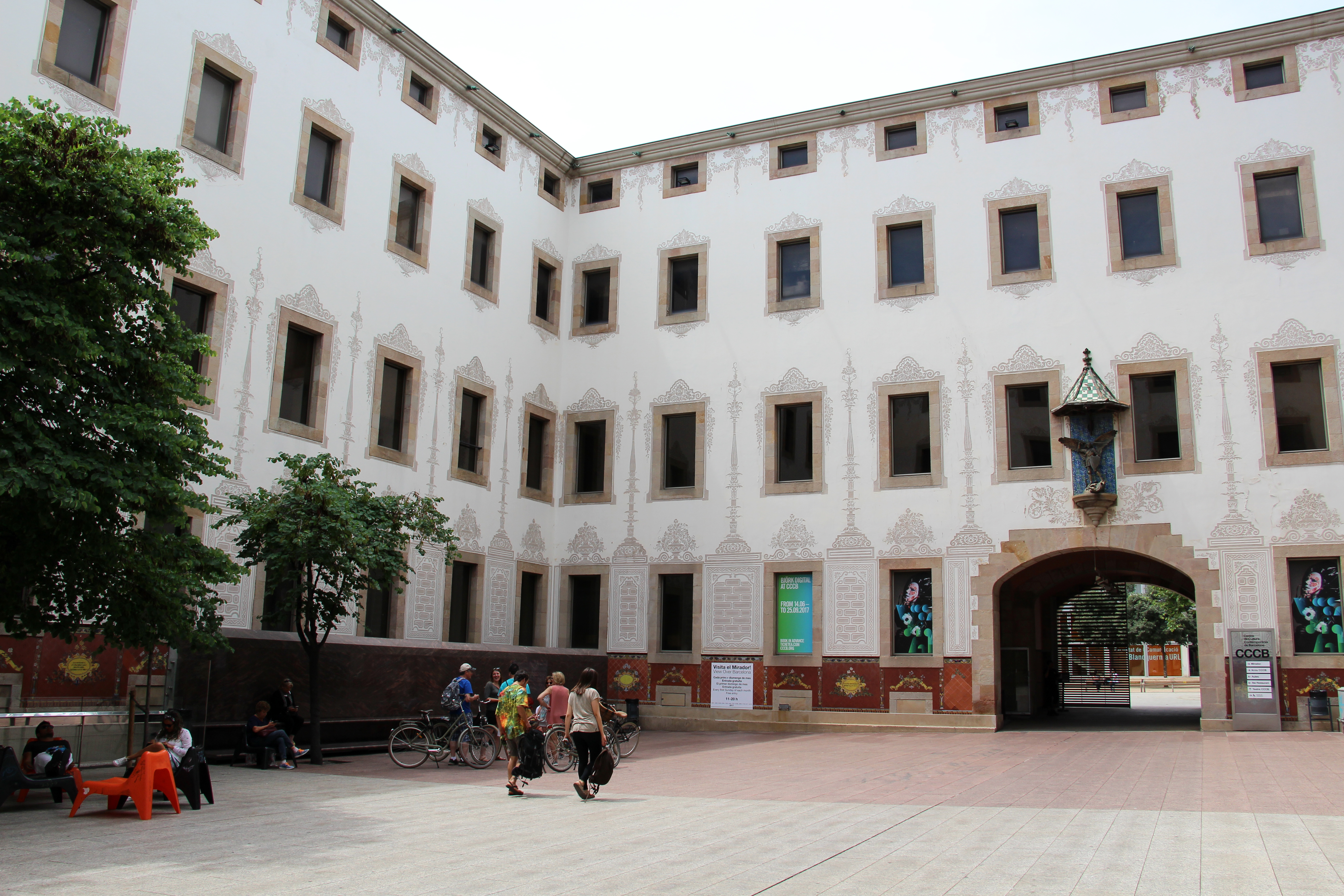 Barcelona - Centre de Cultura Contemporània de Barcelona (CCCB)